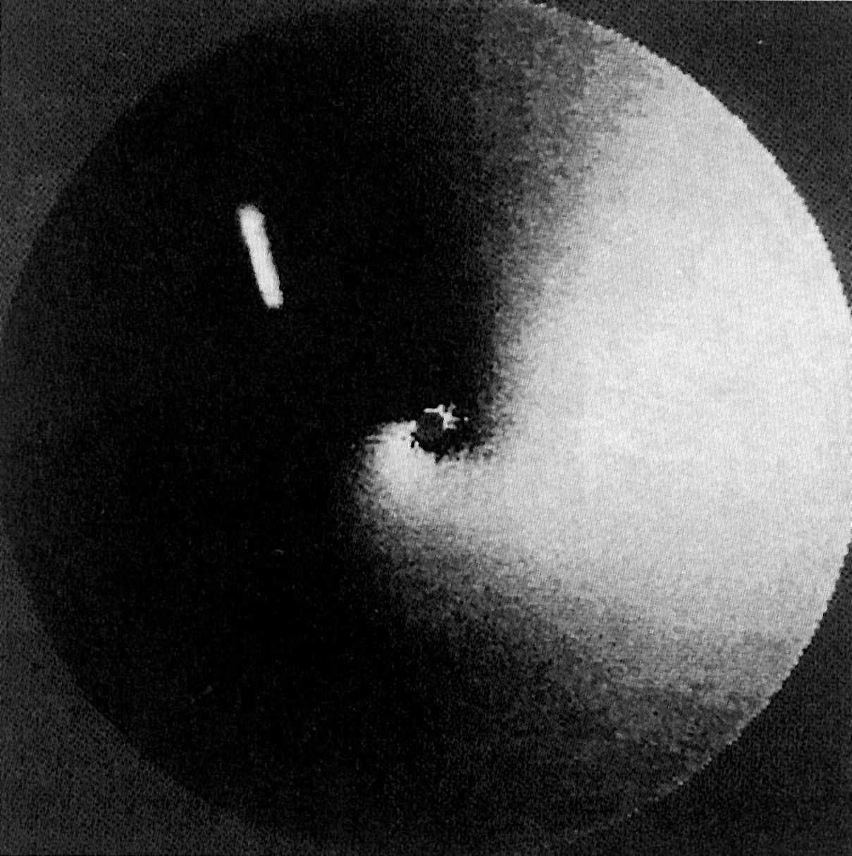 This a computer-enhanced NTT image of the newly discovered Comet Austin (1989 c1) which may become comparatively bright during mid-April 1990 when it approaches the Sun to within 50 million kilometres. On May 25, it will be only 36 million kilometres from the Earth. After mid-April, it will be well visible from the northern hemisphere in the early evening.